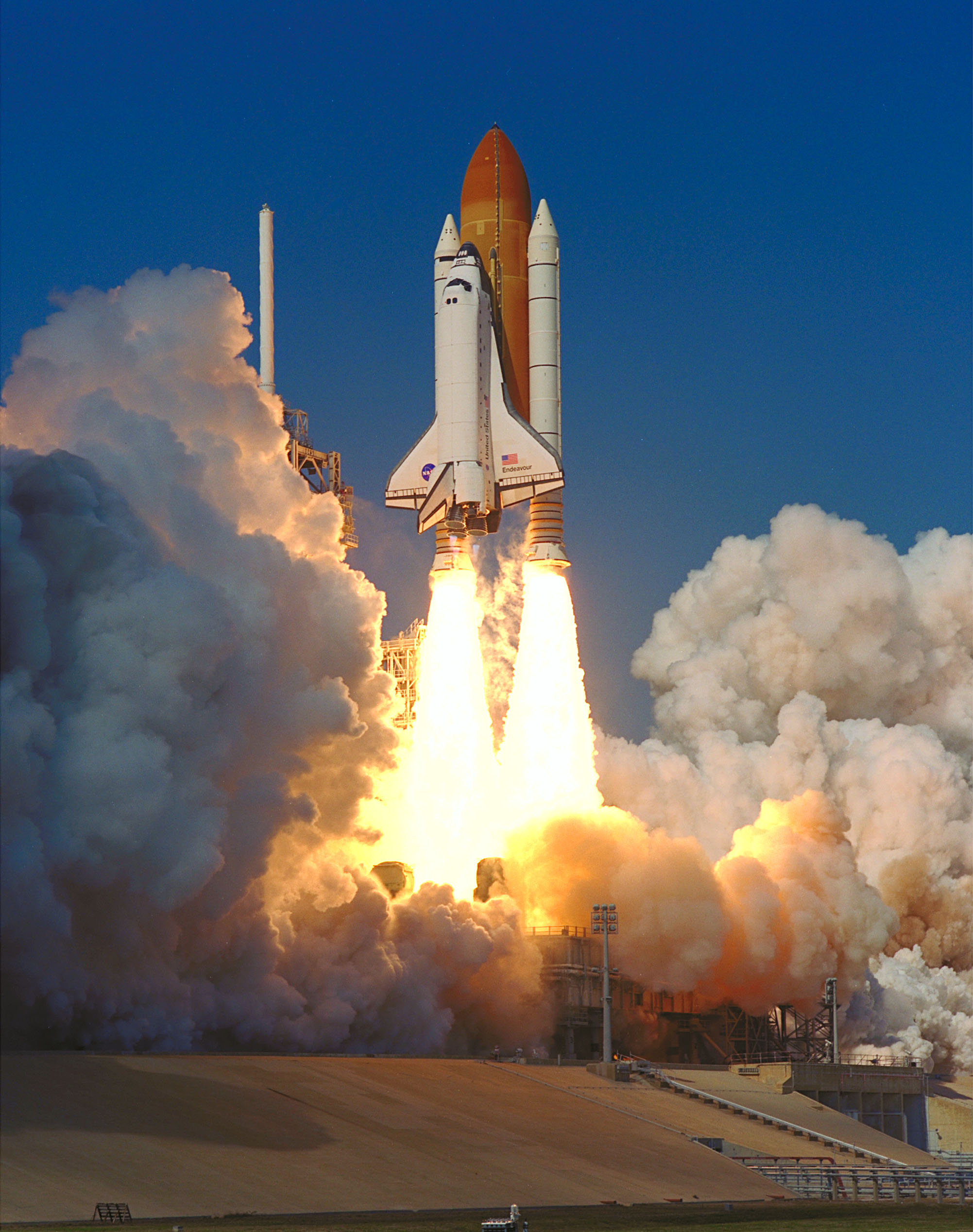 STS-99 Endeavour lifts off from Launch Pad 39A